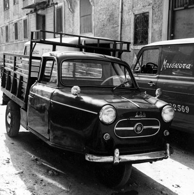 A SAM truck (photograph taken in Athens in 1970). Photo taken by George Avramidis, co-author of my book "Made in Greece" (Typorama, Patras, 2003). It can be reproduced.